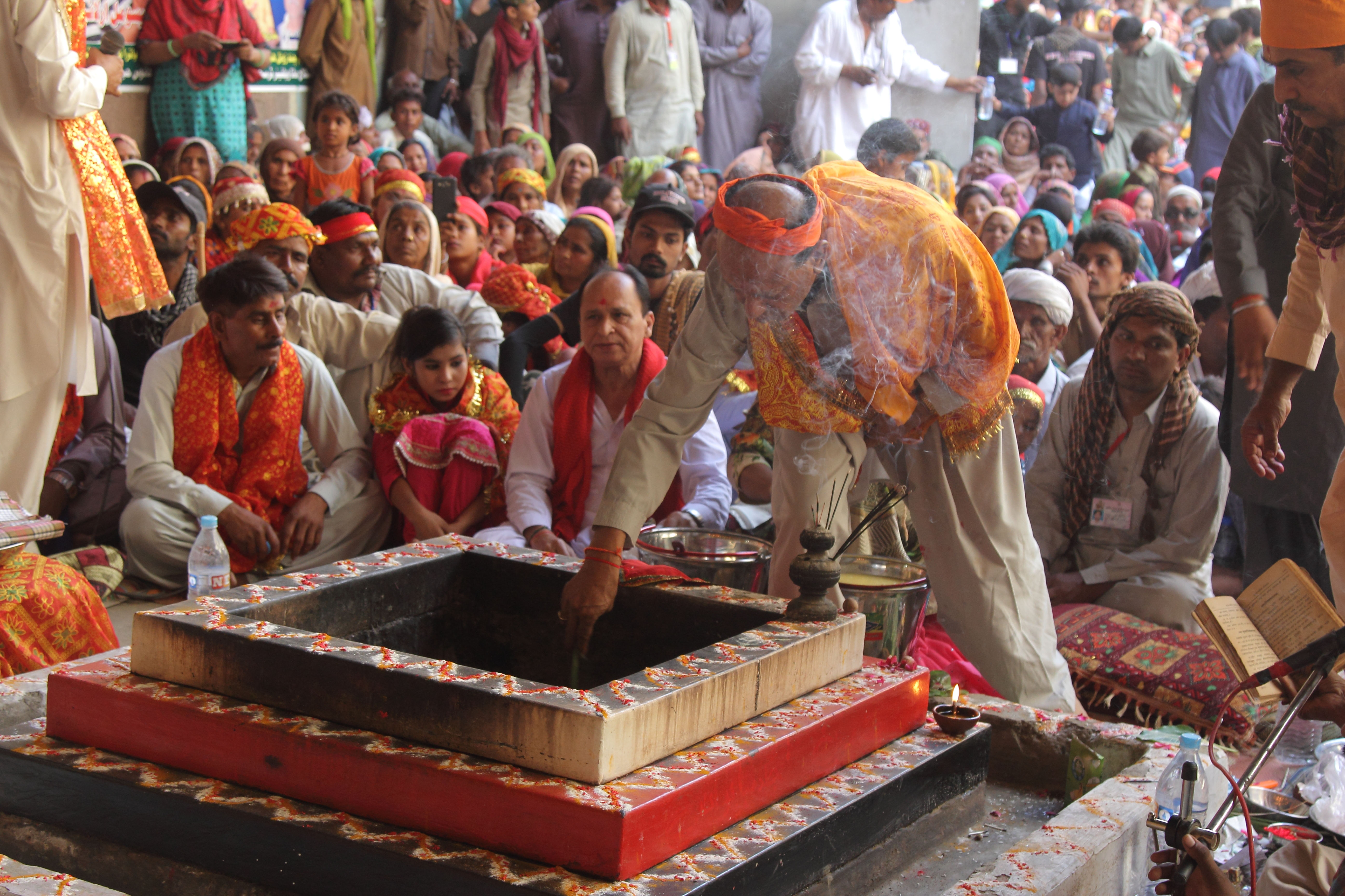 Hinglaj Mata (Rani ki Mandir) This is a photo of a monument in Pakistan identified as the BA-U-57